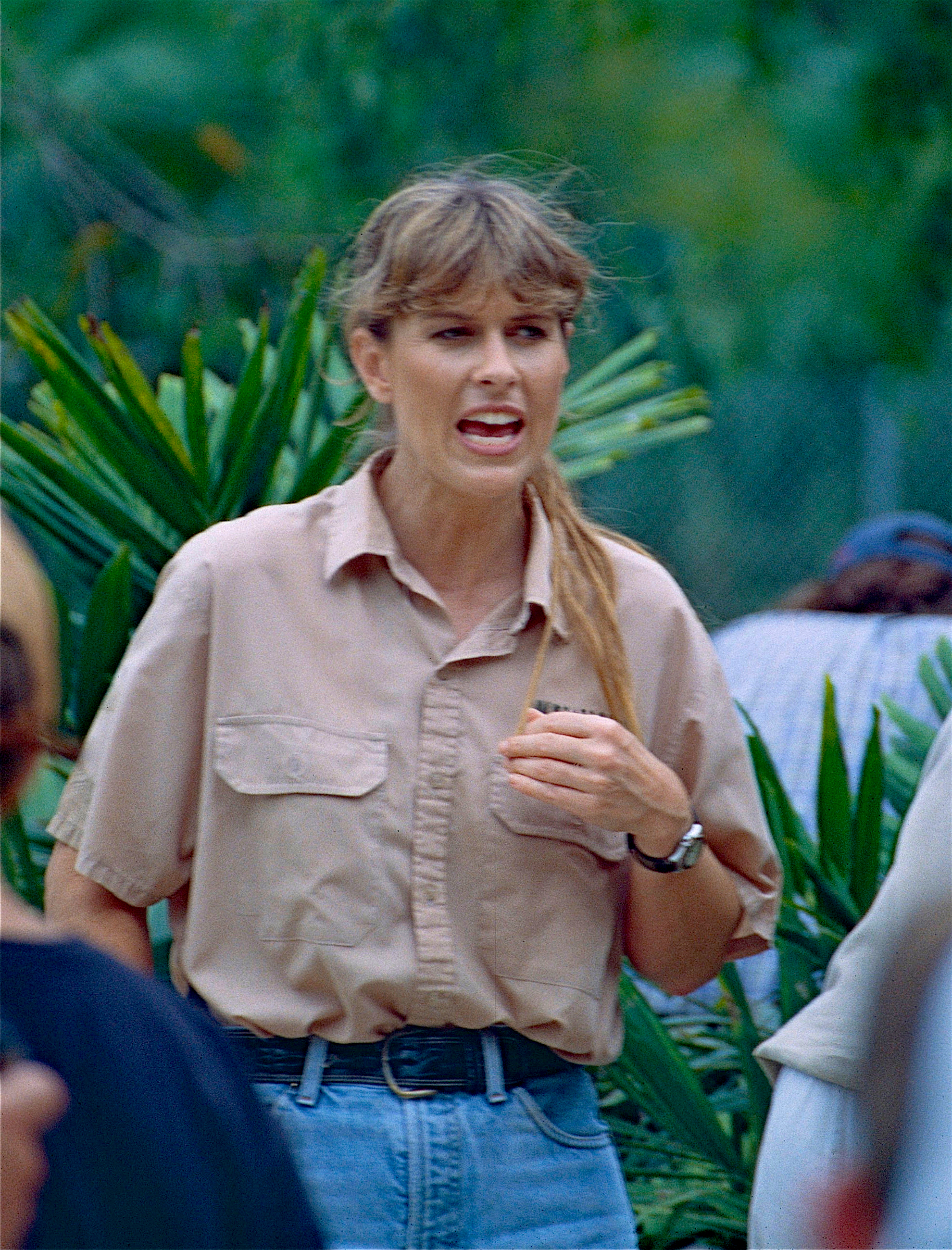 Irwin at Australia Zoo, 2000